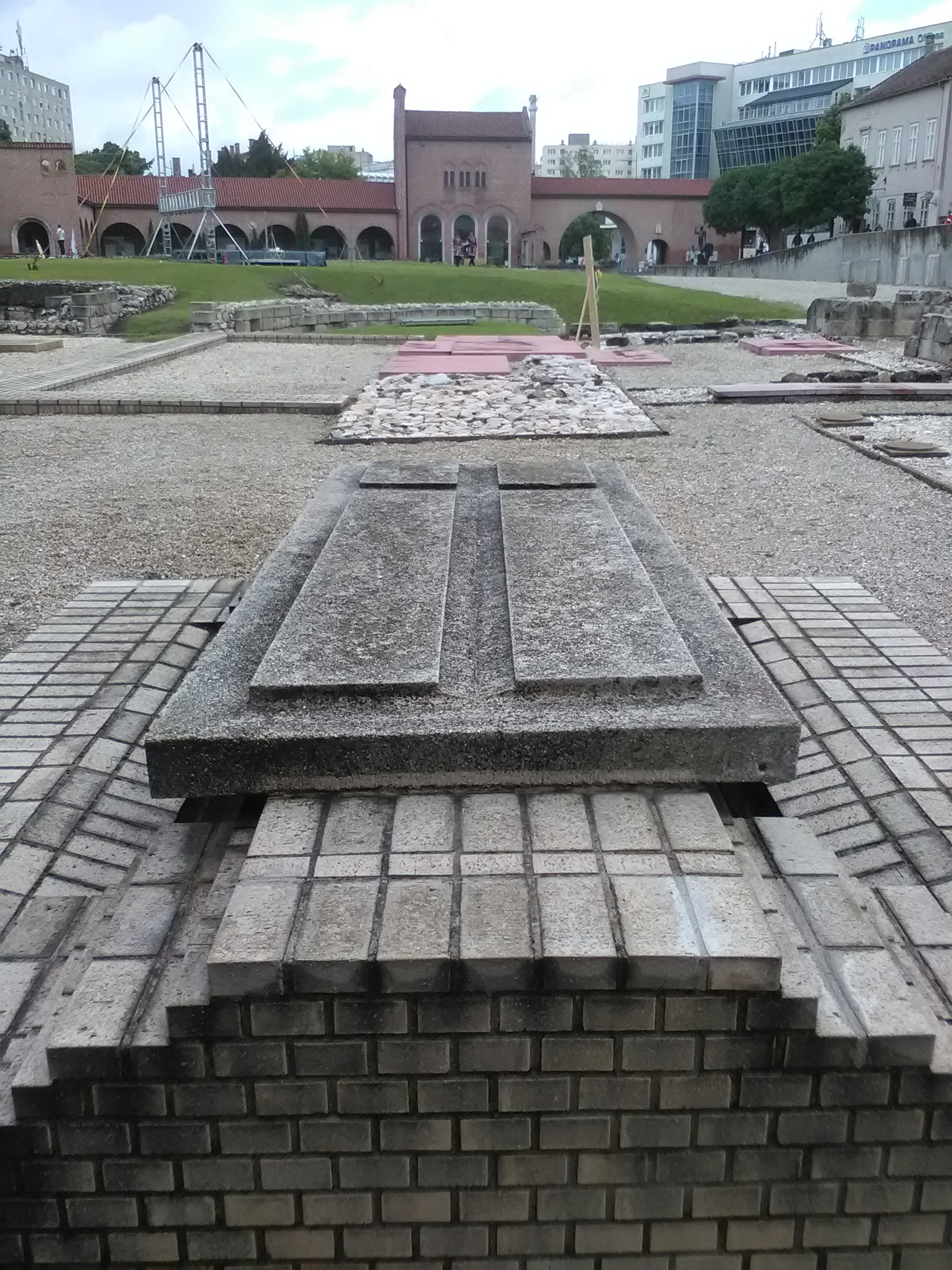 Grave of St. Stephen, King of Hungary in National Memorial, Székesfehérvár, Hungary